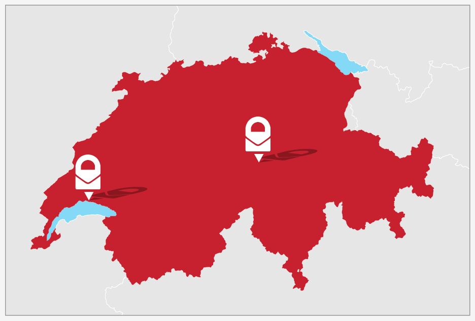 ProtonMail's servers distributed in Switzerland (AlpineDC in Lausanne and Deltalis in Attinghausen)